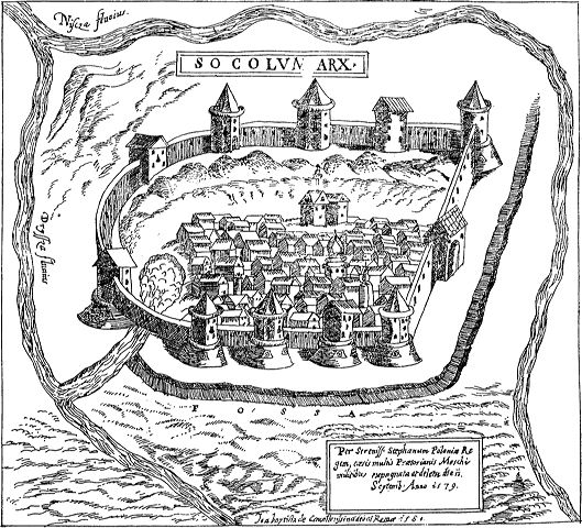 Fortress Sokal, Belarus